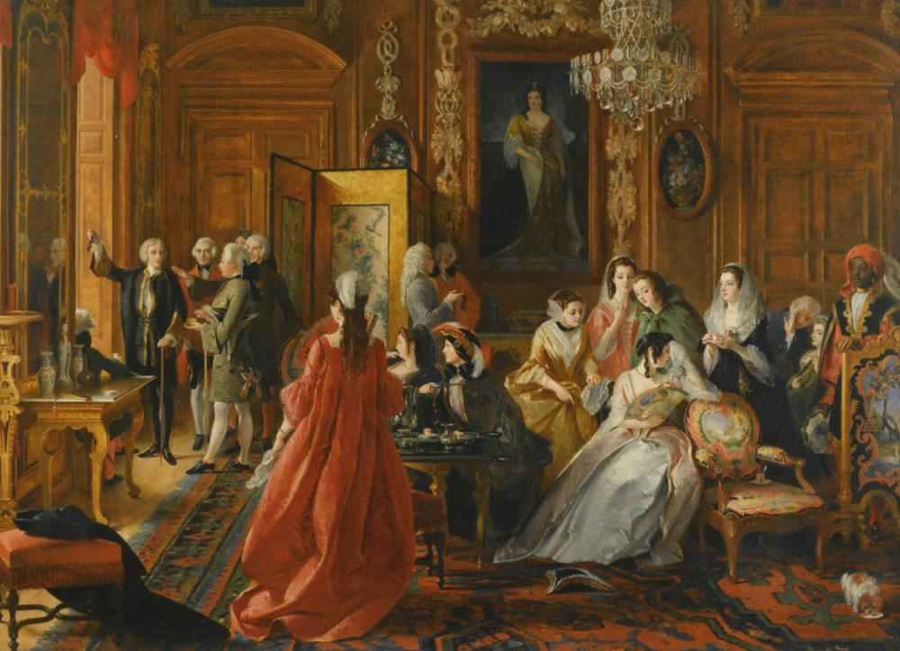 “Sir Plume demands the restoration of the lock” (from Alexander Pope's The Rape of the Lock), an oil painting by Charles Robert Leslie, exhibited in 1854